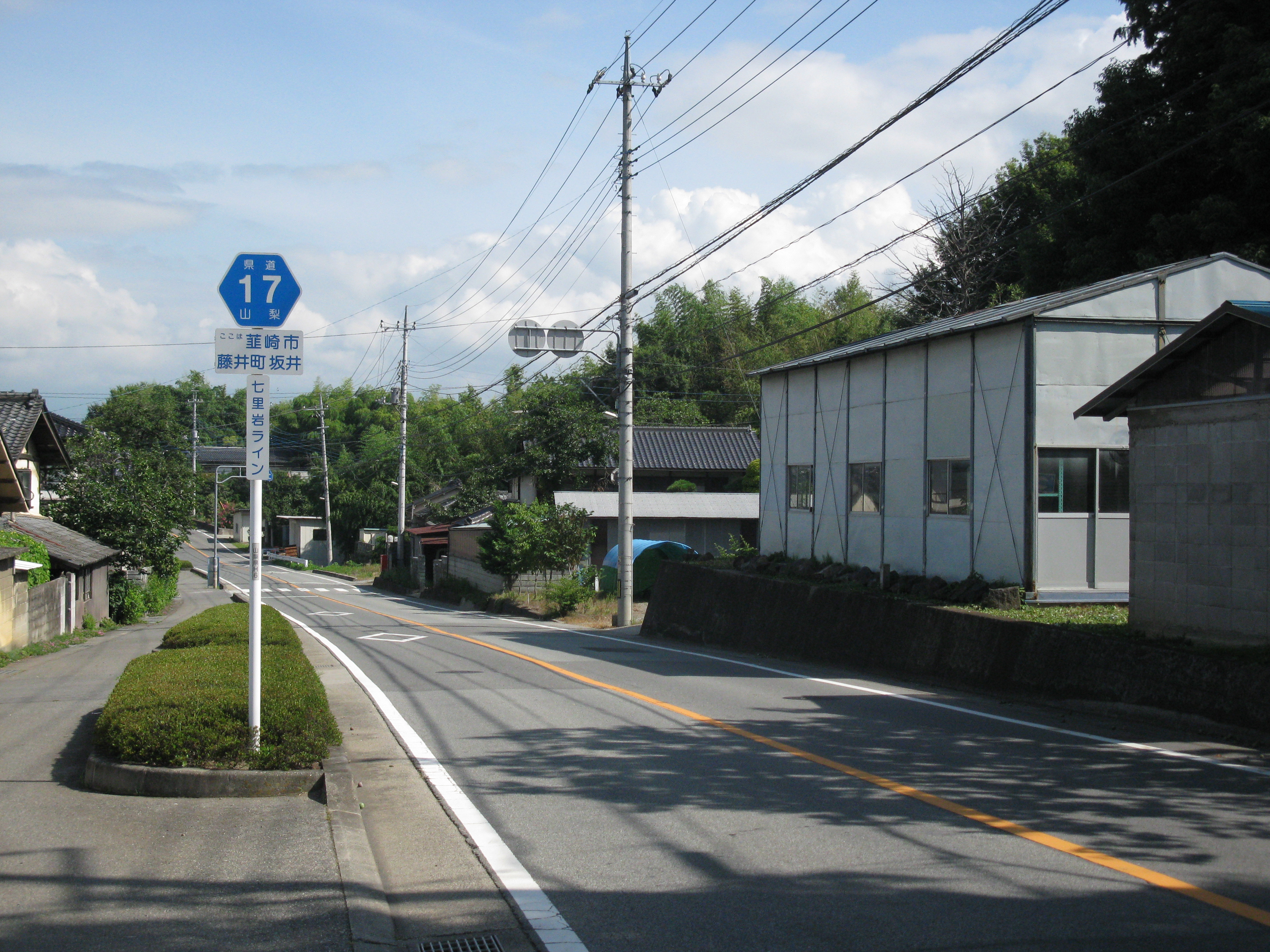 Yamanashi prefectural road no.17 (Nirasaki city, Yamanashi prefecture, Japan)